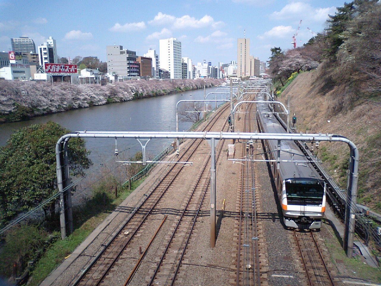 Chūō Rapid Line train runs Sotobori (Edo castle embankment). Right wo tracks of is Chūō Rapid Line, and other two tracks is Chūō-Sōbu Line.中央快速線、飯田橋～市ヶ谷間で撮影。外堀の桜が開花。